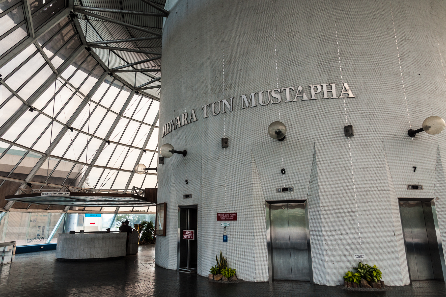 Kota Kinabalu, Sabah: Tun Mustapha Tower (Menara Tun Mustapha)